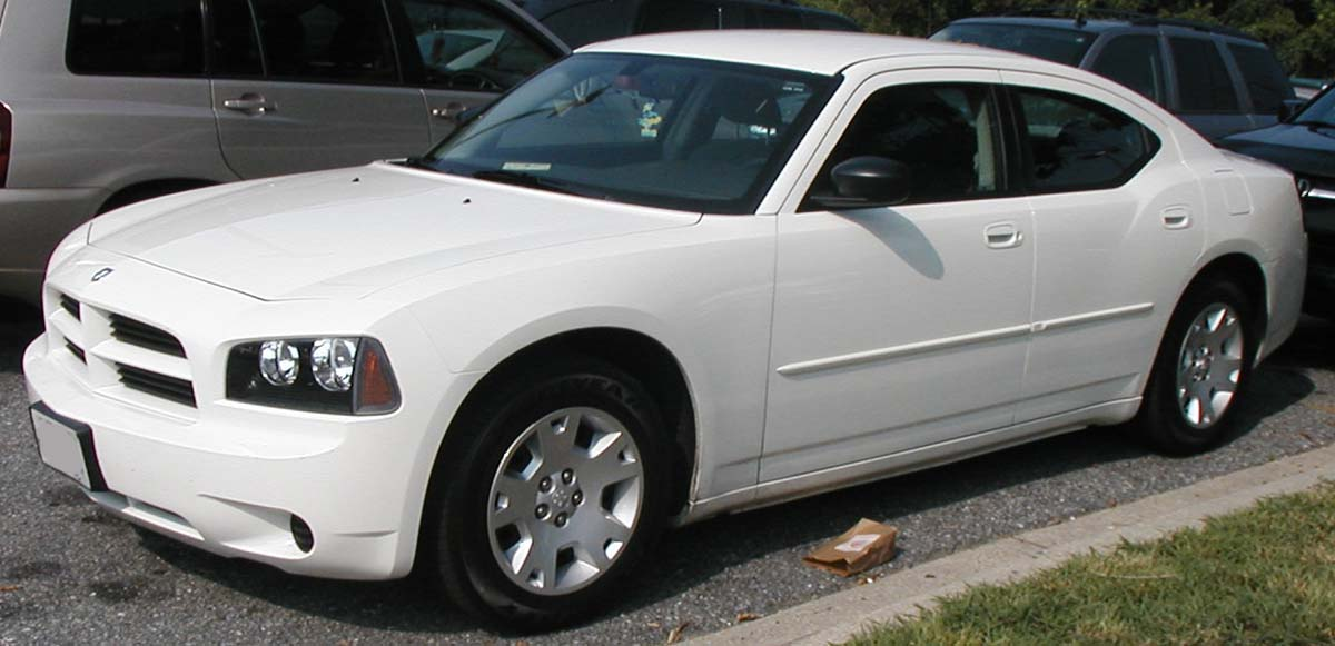 2006 Dodge Charger SE photographed in USA.